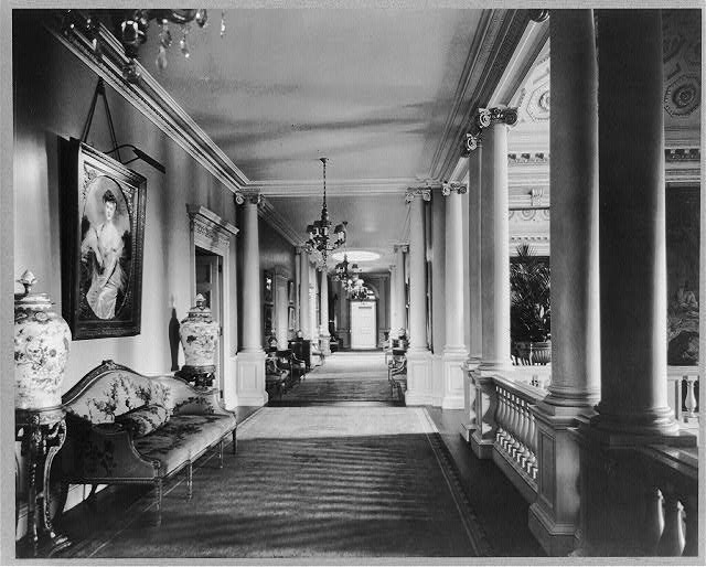 Edward T. Stotesbury home, "Whitemarsh Hall". Philadelphia, Pa. 1923?